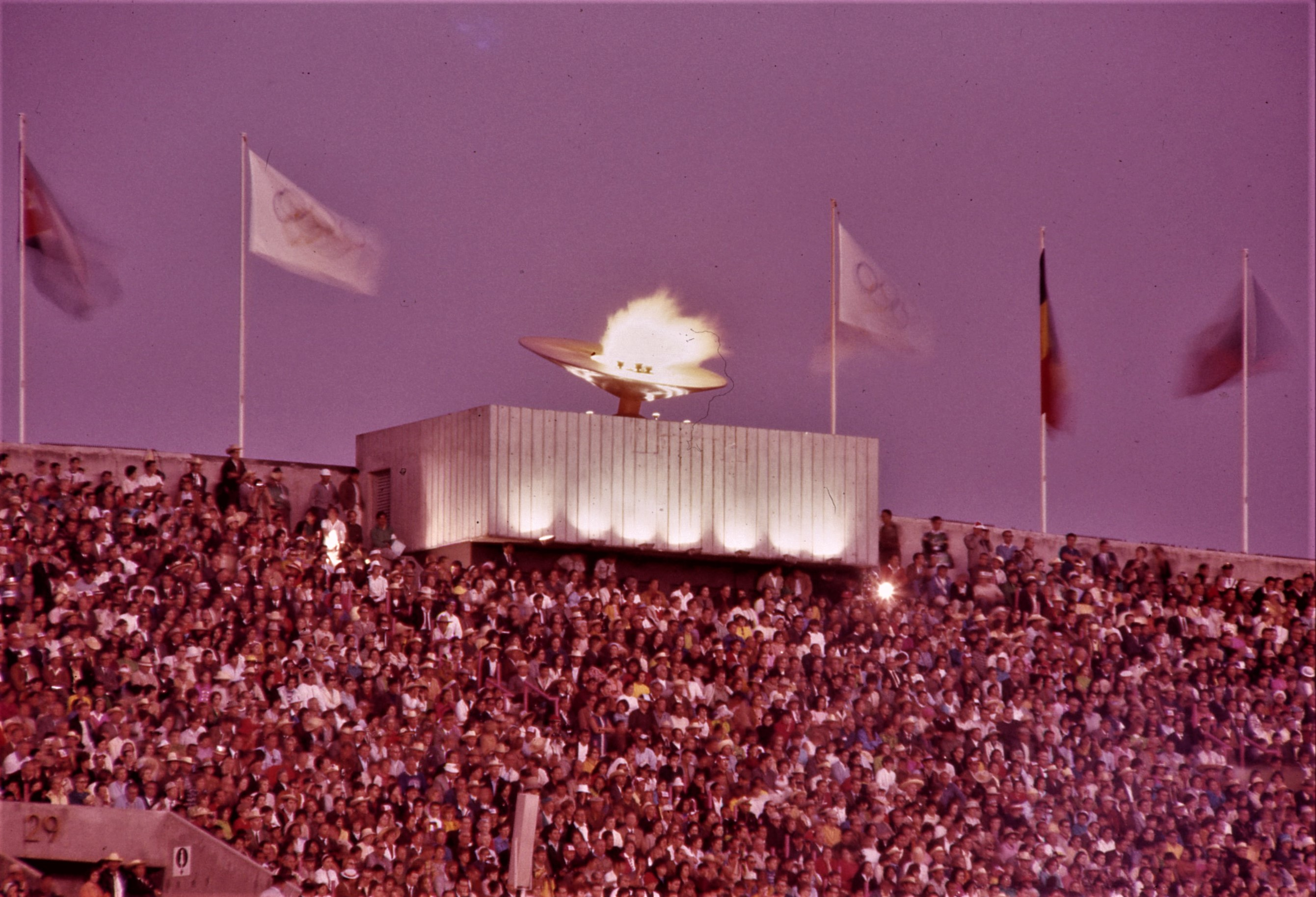 Olympic Fire